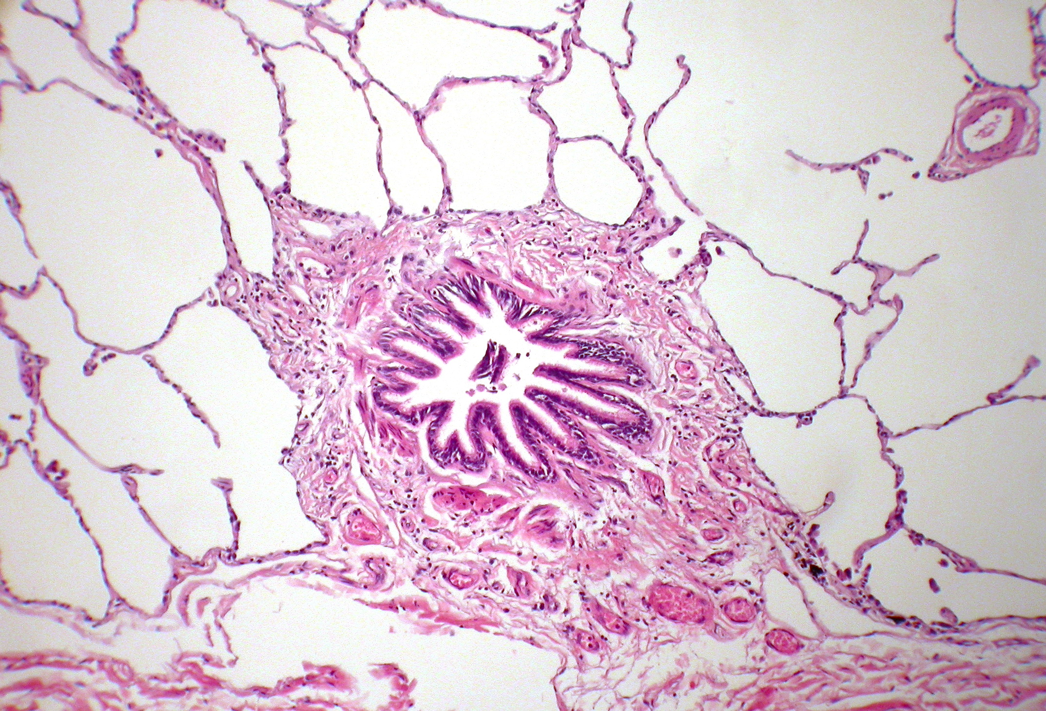 Bronchiole with surrounding alveoli.